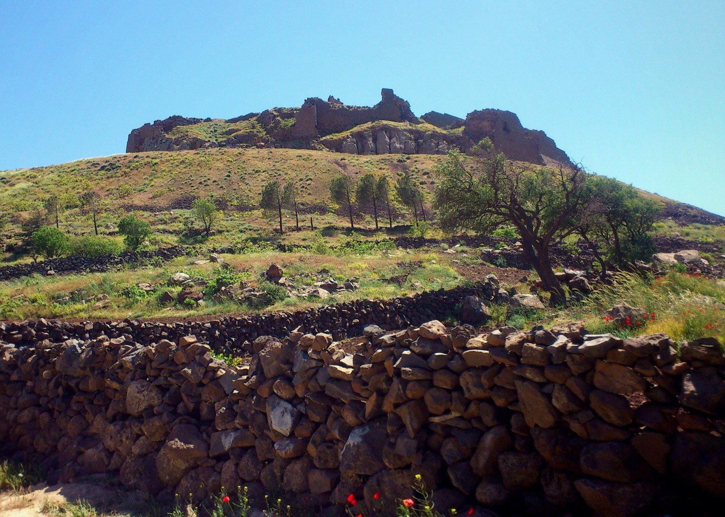 Salkhad colline and historic castleTemplate:Wiki Loves Earth Syria